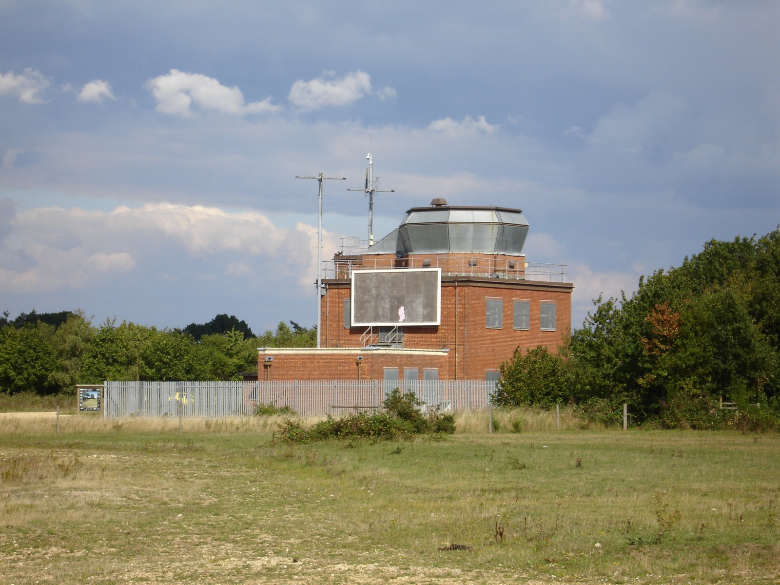 Control tower at RAF Greenham Common